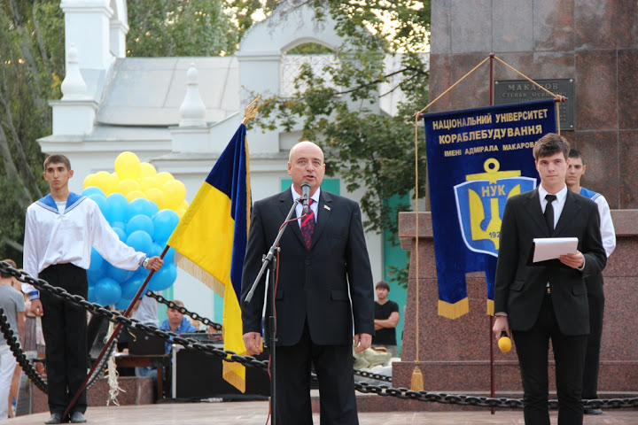 Rector of Admiral Makarov National University of Shipbuilding Ryzhkov Sergii Sergiiovych at solemn Initiation into Students